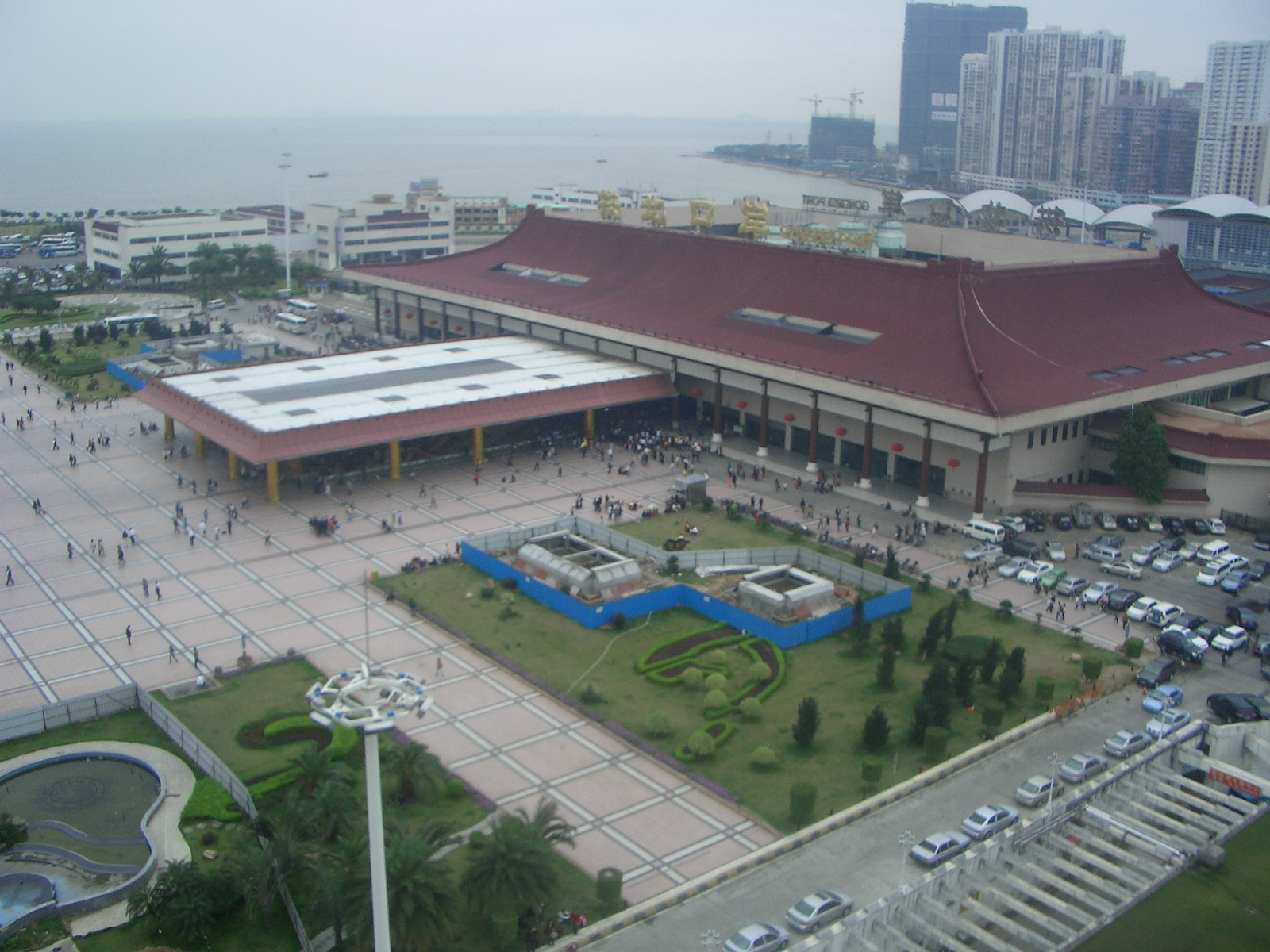 photo taken by 9old9 珠海zh:拱北口岸聯檢大樓